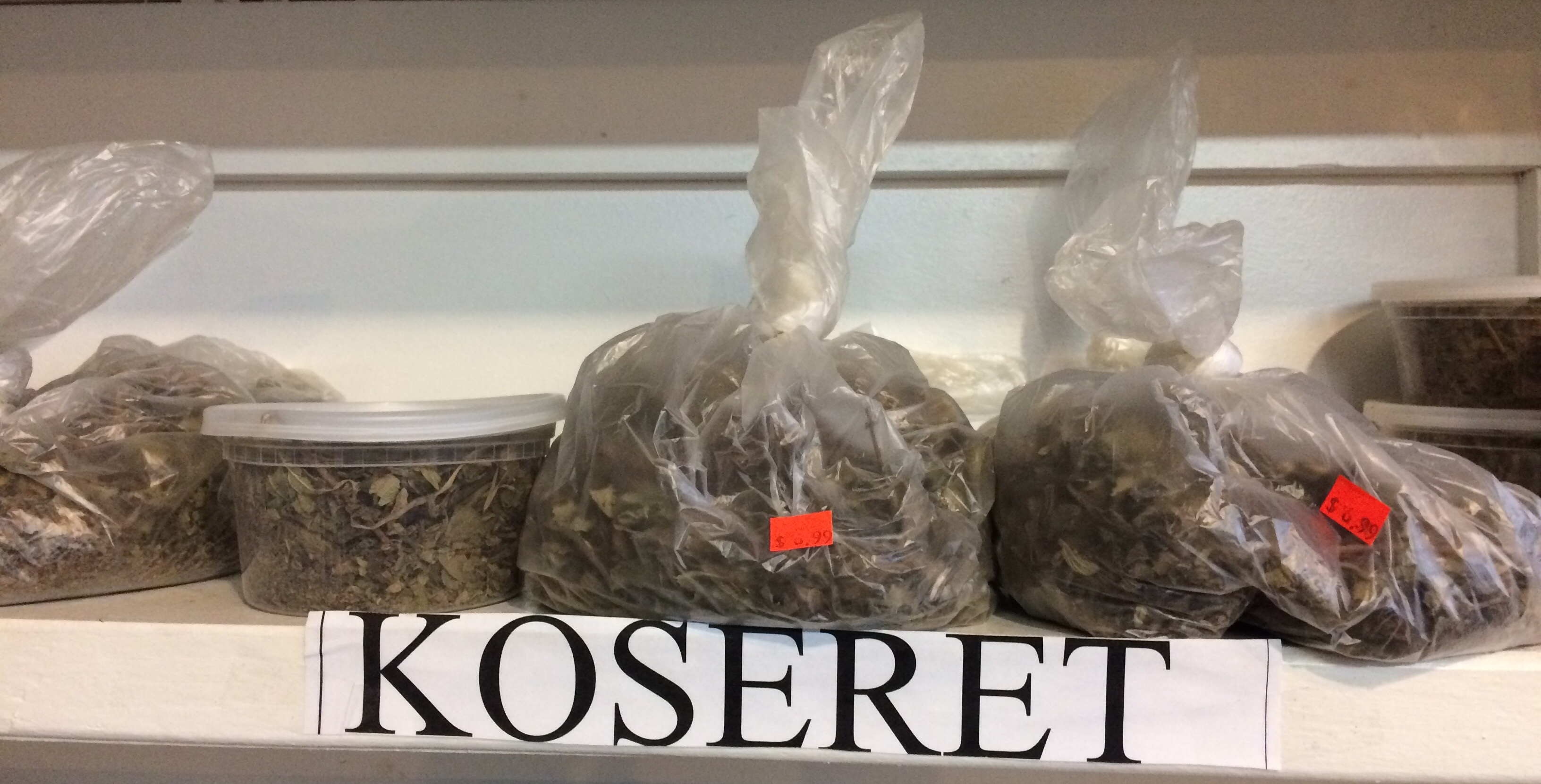 The herb koseret (Lippia abyssinica) ኮሰሬት for sale at Kukulu market in Chicago,IL